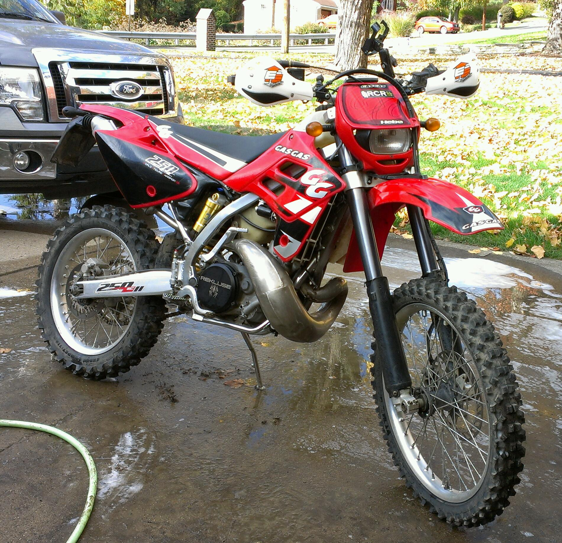 2003 Gas Gas EC 250 motorcycle